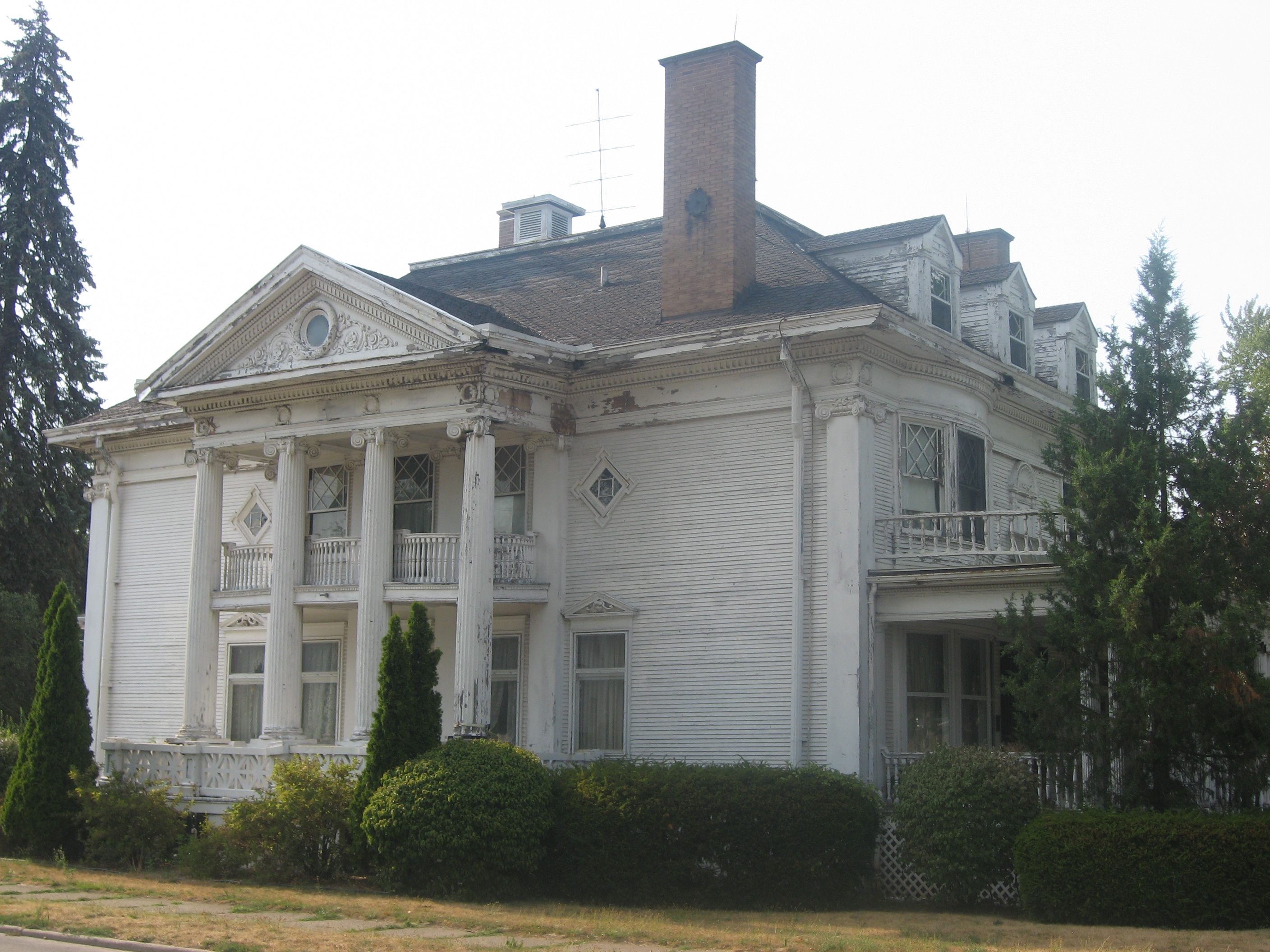 Southern side and front of the Jacob Straus House, located at 210 S. Main Street in Ligonier, Indiana, United States. Built in 1898, it is listed on the National Register of Historic Places, and it is part of a Register-listed historic district, the Ligonier Historic District.